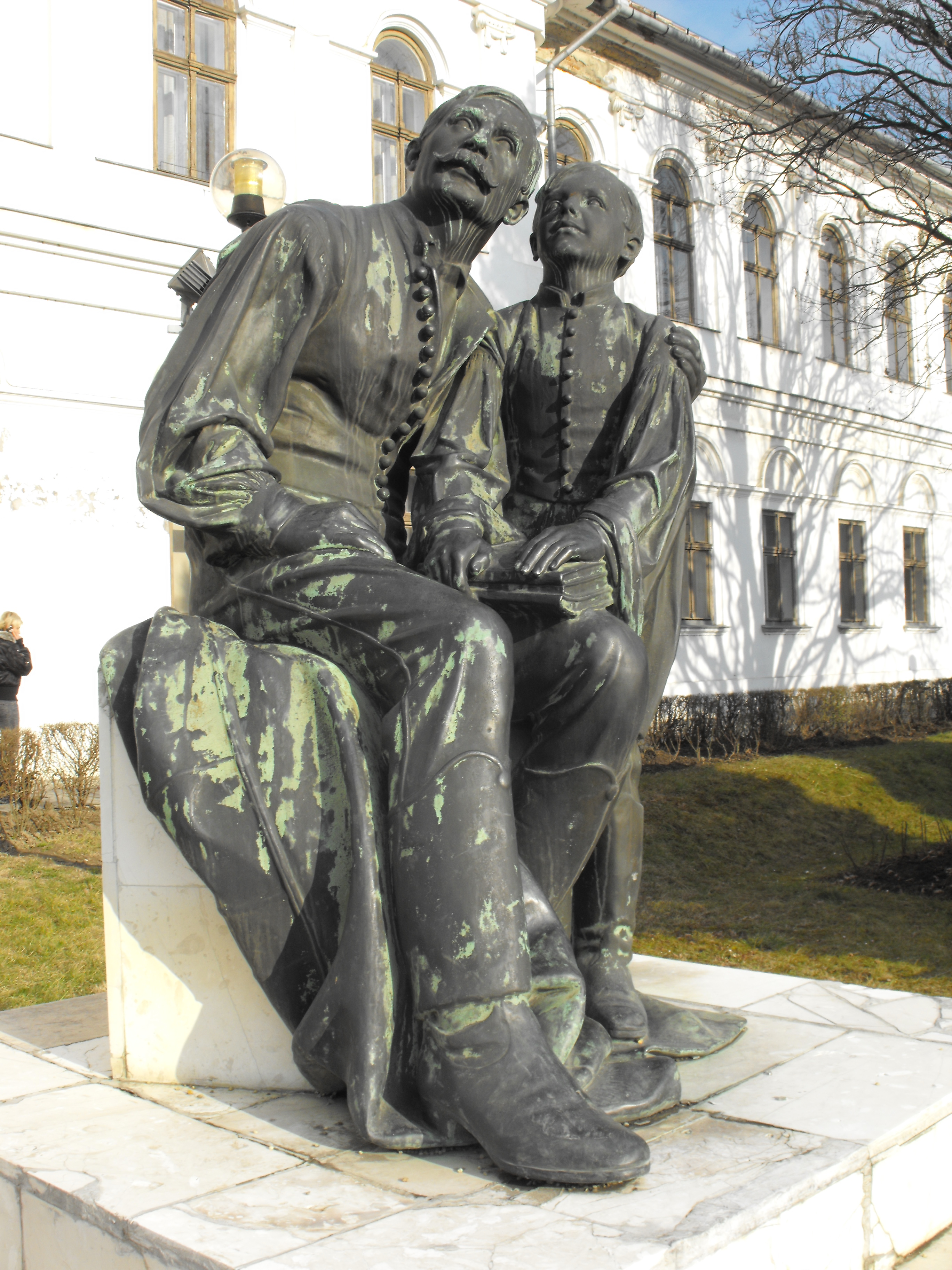 Side figure of the Návay Lajos monument in Makó, Hungary.